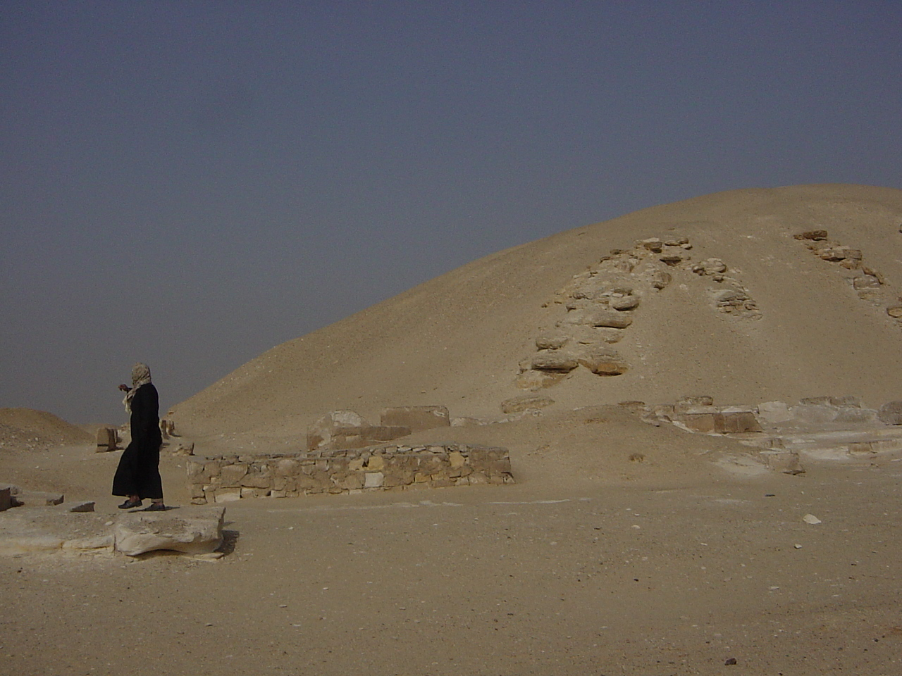 Replacement picture of pyramid – own image of Markh , taken 2004